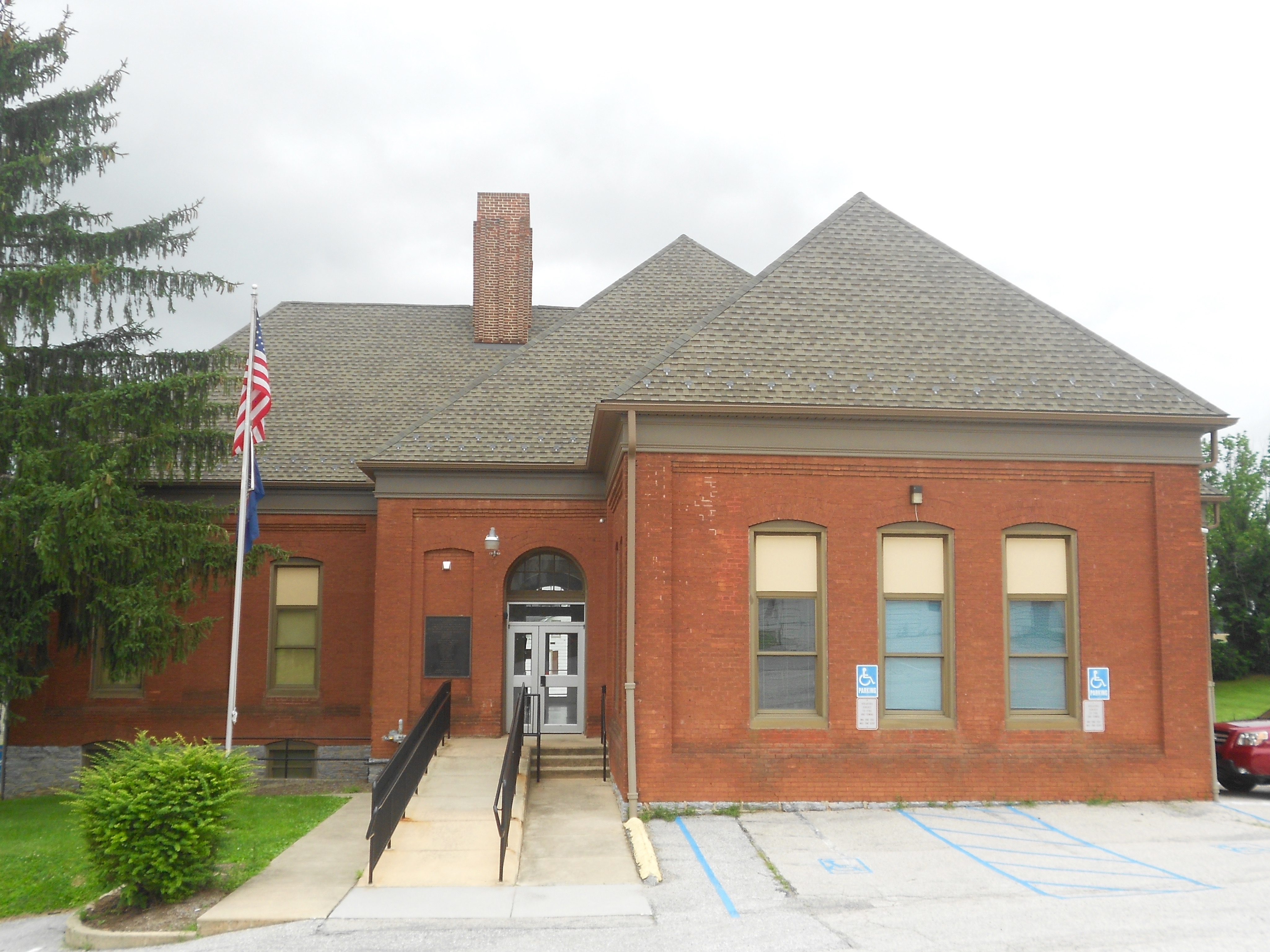 Municipal building (formerly a school) in Jefferson, York County, Pennsylvania